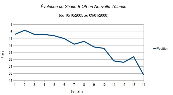 Evolution in the New Zealand singles chart of Mariah Carey's song, Shake It Off.